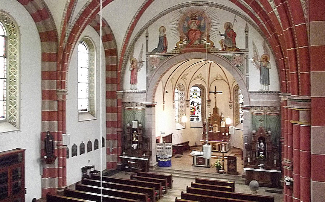 Interior of the roman catholic church in Wadrill, Saarland